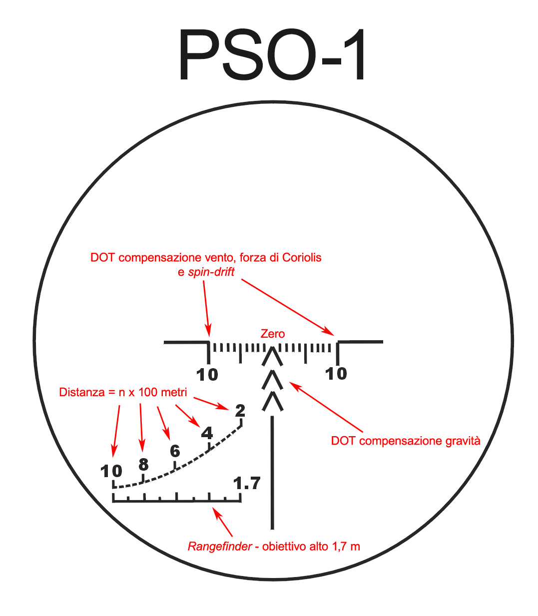 The PSO-1 scope reticle with infos (italian)